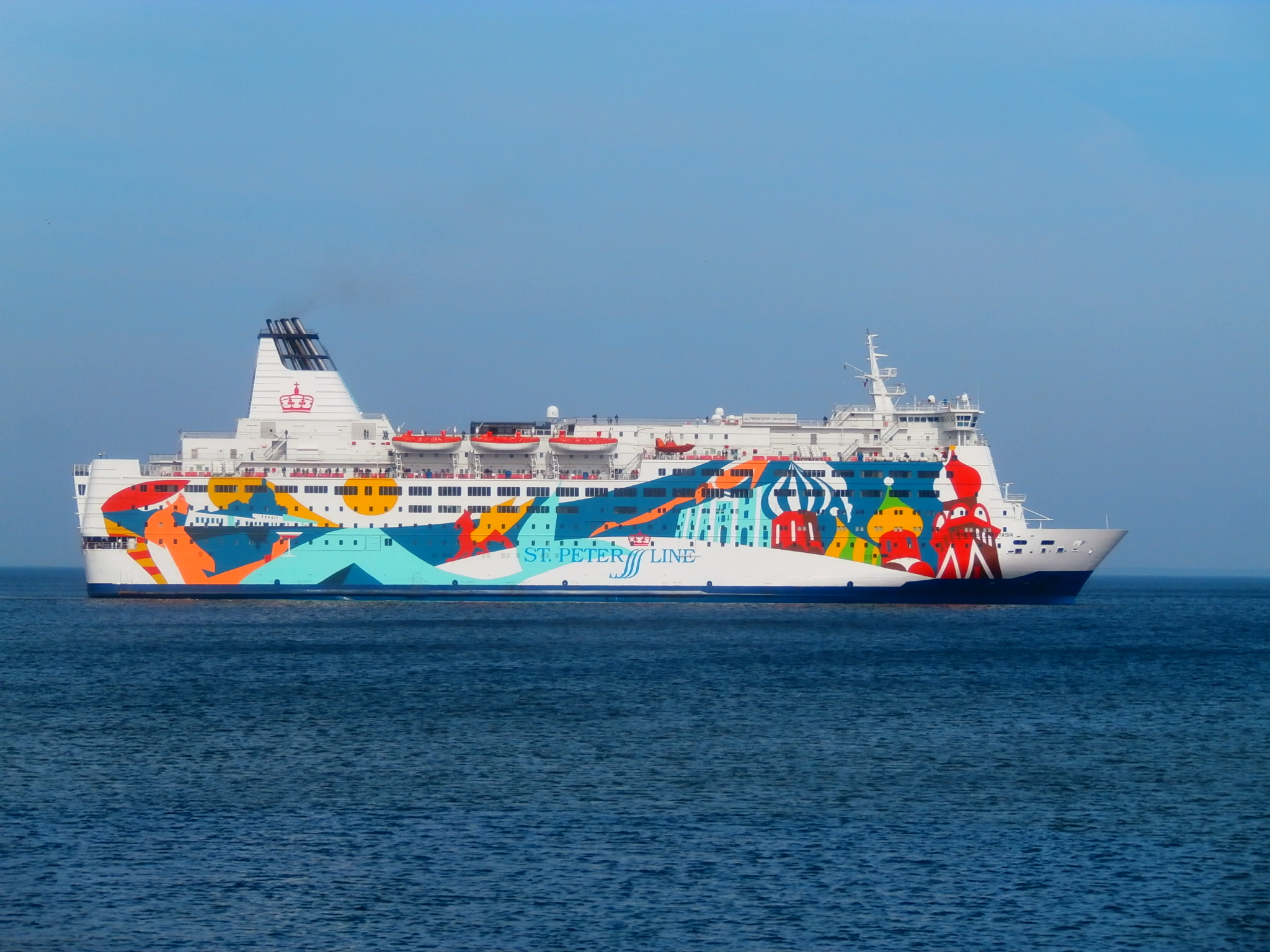 Princess Anastasia or SPL Princess Anastasia - that is the question, Tallinn 10 April 2017